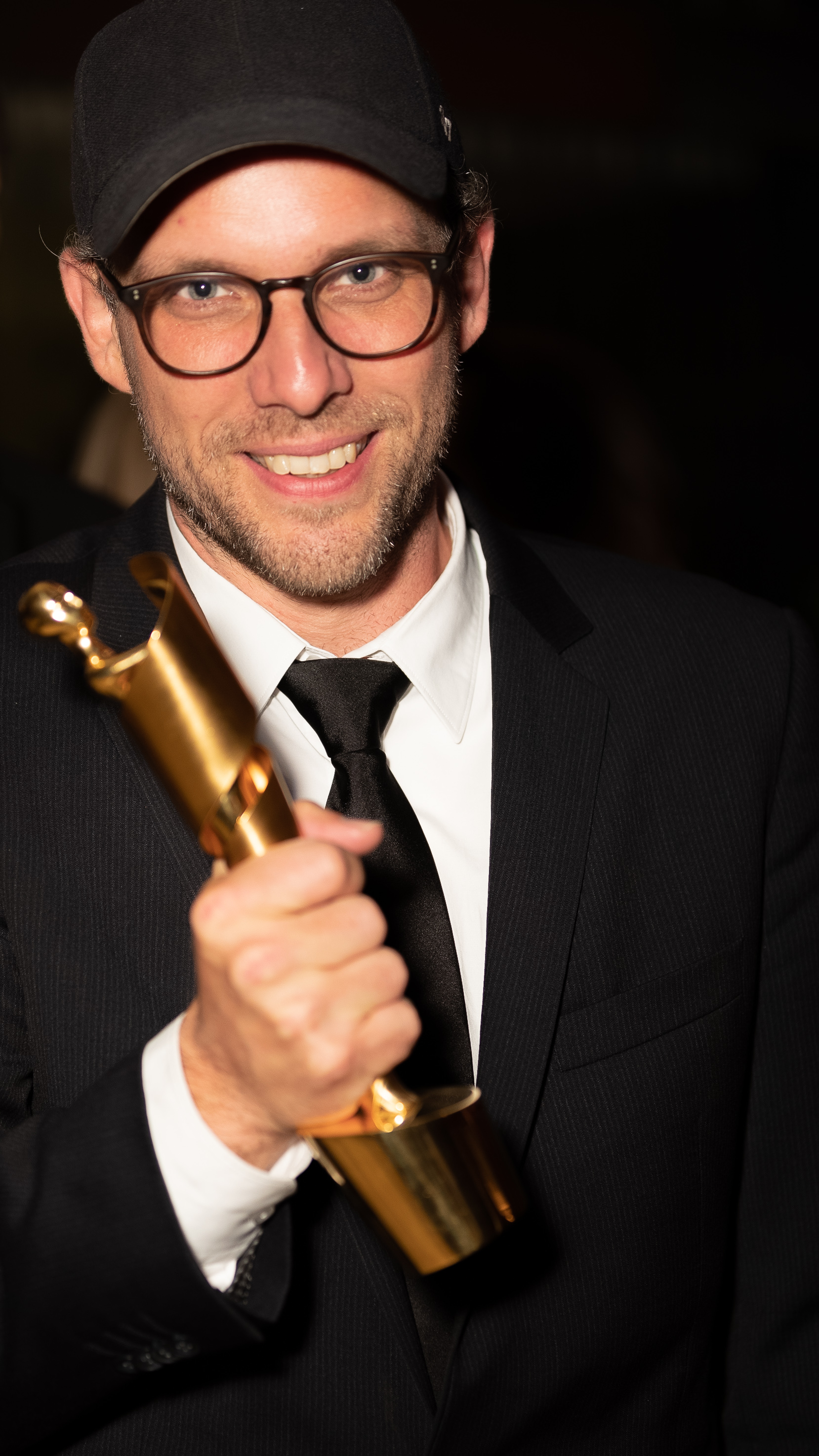 Ansgar Frerich at the party of the German Film Award 2019 at the Palais am Funkturm, Berlin.